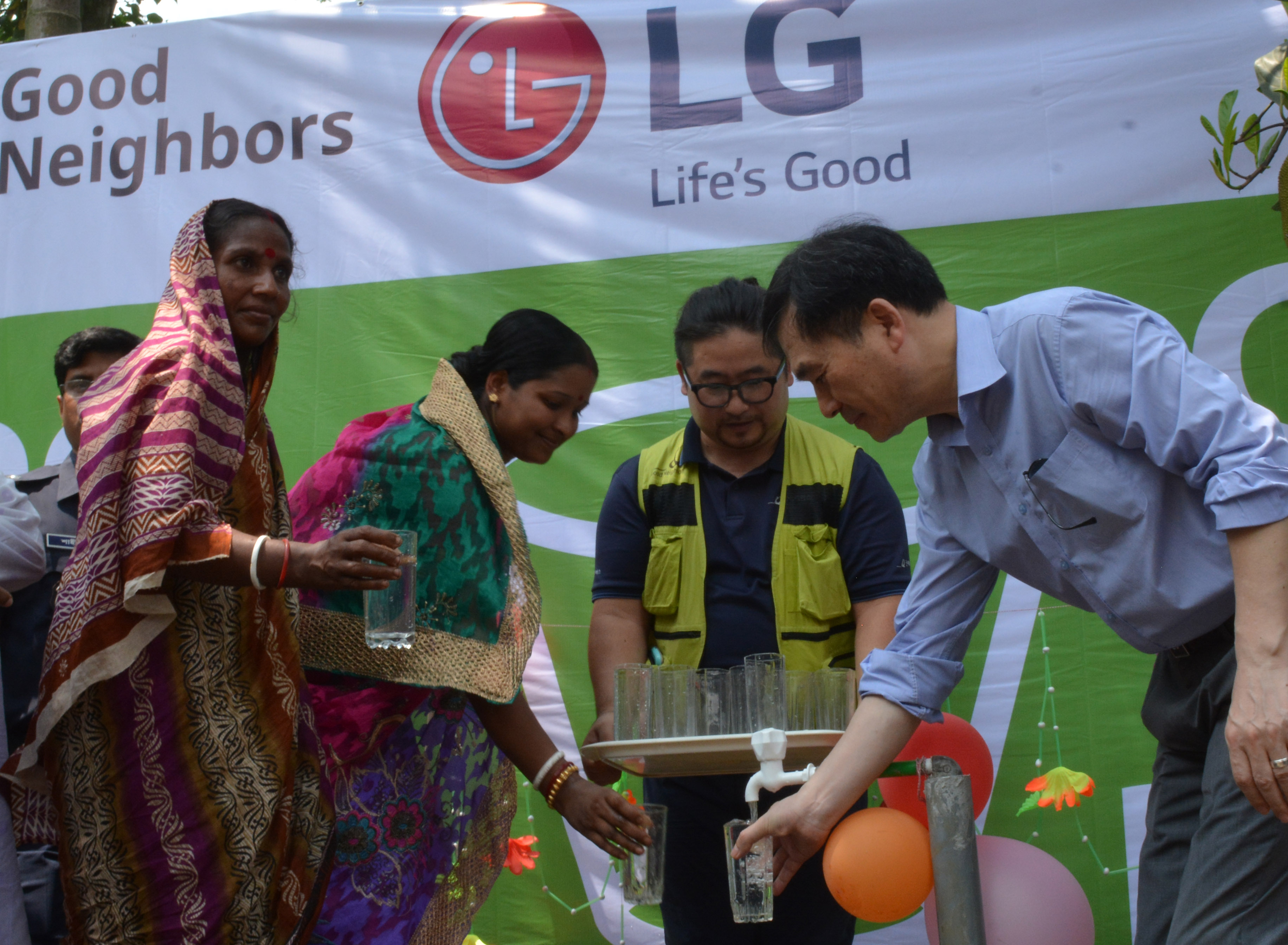 LG Electronics-Good Neighbors organized WASH program in Bangladesh